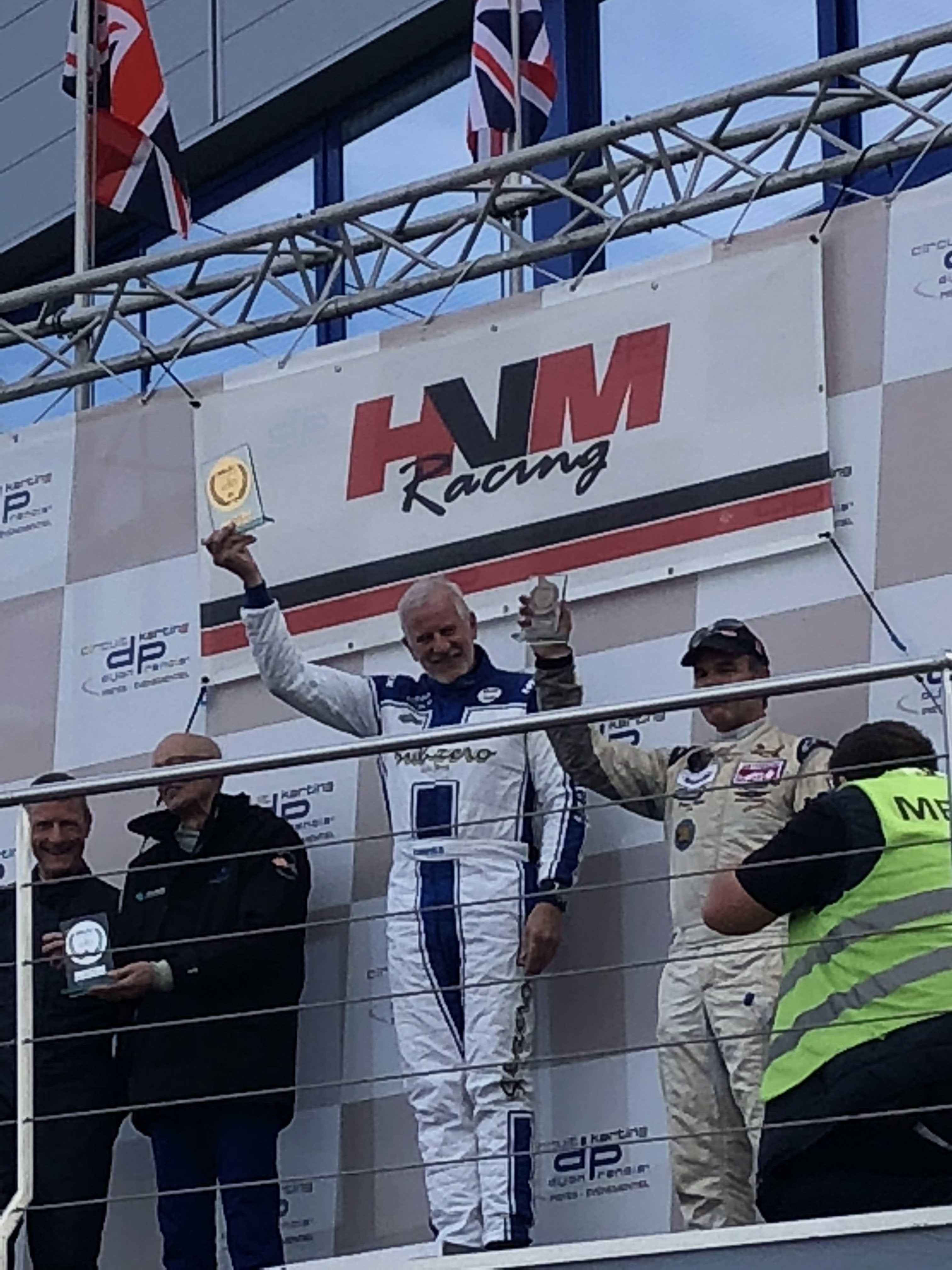 Podium photo of Craig Davies winning the Masters Pre66 Touring Cars at Dijon-Prenois